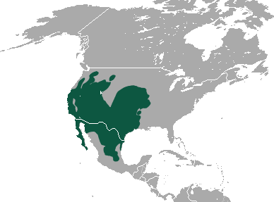 Black-tailed Jackrabbit (Lepus californicus) range, with colonial borders added